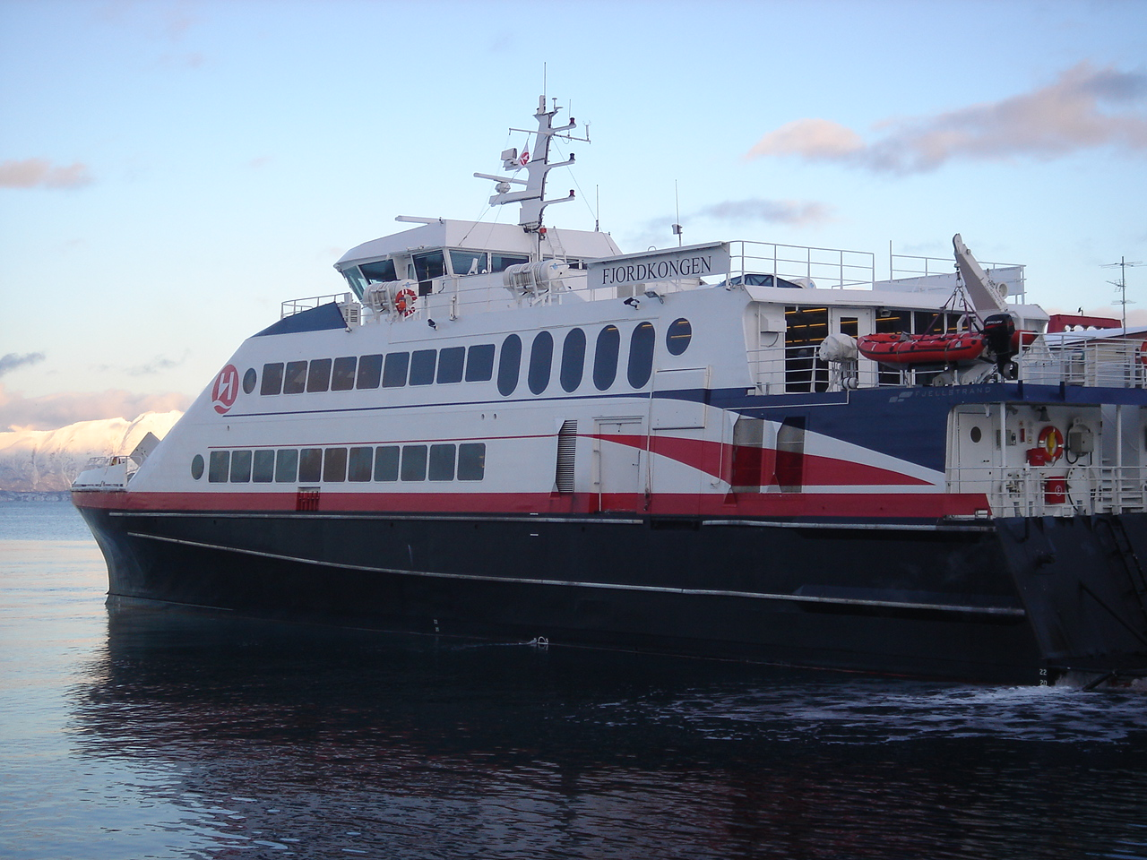 MS Fjordkongen i Harstad, Norway IMO Number: 9328998 MMSI Number: 258436000 Callsign: LNES Norsk (bokmål): MS Fjordkongen til kai i Harstad